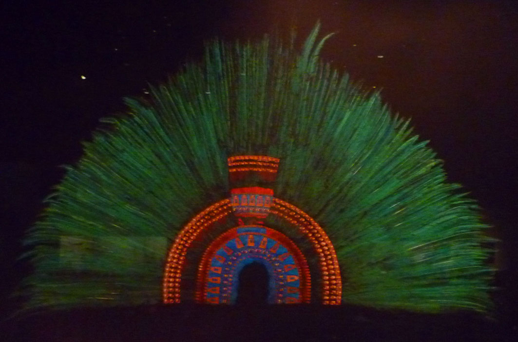 Aztec feather headdress attributed to Moctezuma II; currently resides in the Museum of Ethnology, Vienna, Austria, while a replica is exhibited at the Museo Nacional de Antropología e Historia, México